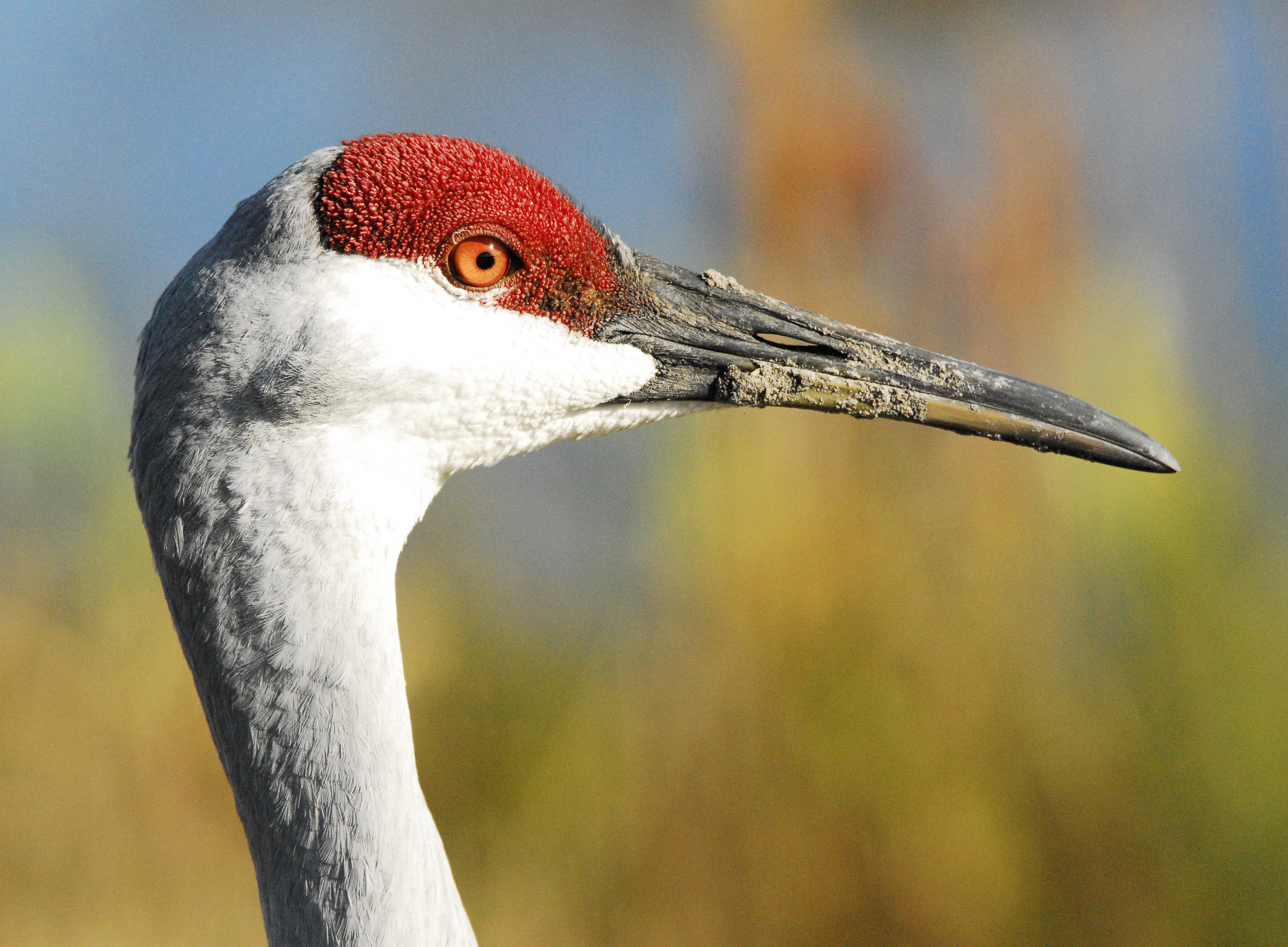 Sandhill Crane at Lake Woodruff National Wildlife Refuge in Florida